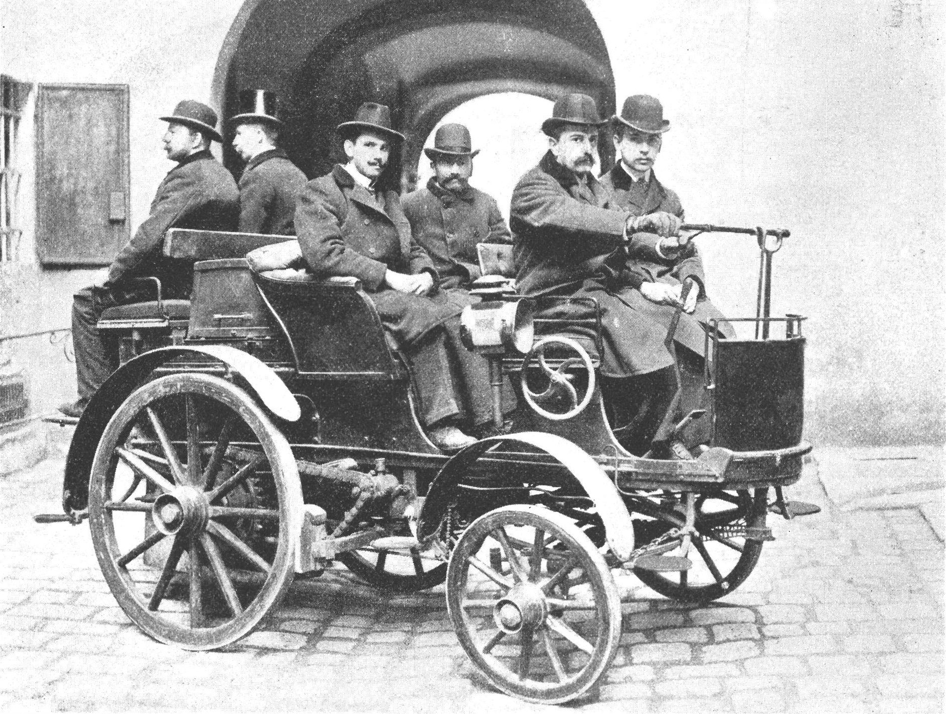 Count Siegfried Wimpffen driving his Serpollet 1892